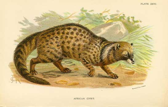 African civet Civettictis civetta